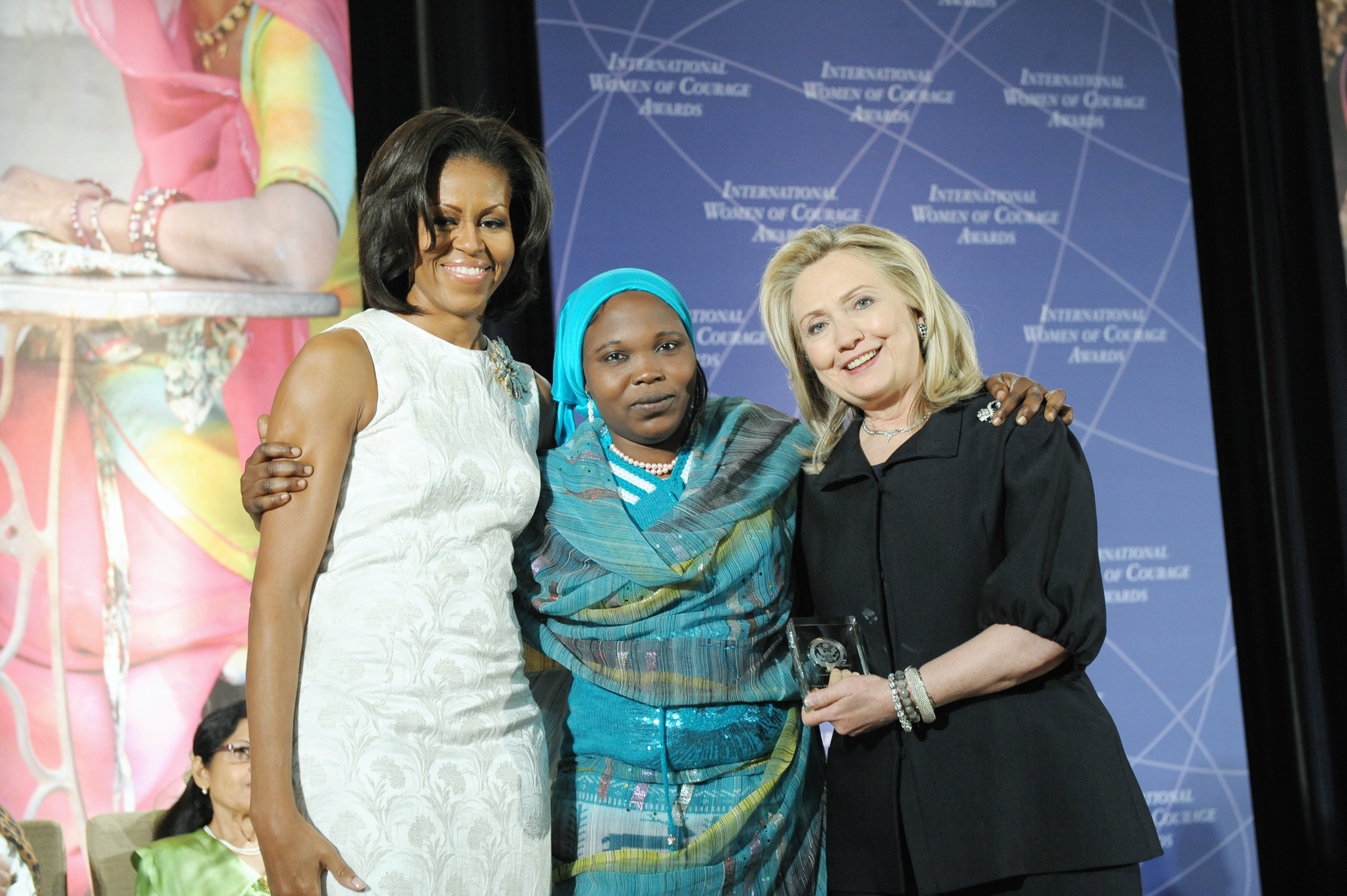 U.S. Secretary of State Hillary Rodham Clinton, right; and First Lady Michelle Obama, left; pose for a photo with 2012 International Women of Courage (IWOC) Award Winner Hawa Abdallah Mohammed Salih of Sudan, at the U.S. Department of State in Washington, D.C., on March 8, 2012. [State Department photo/ Public Domain]